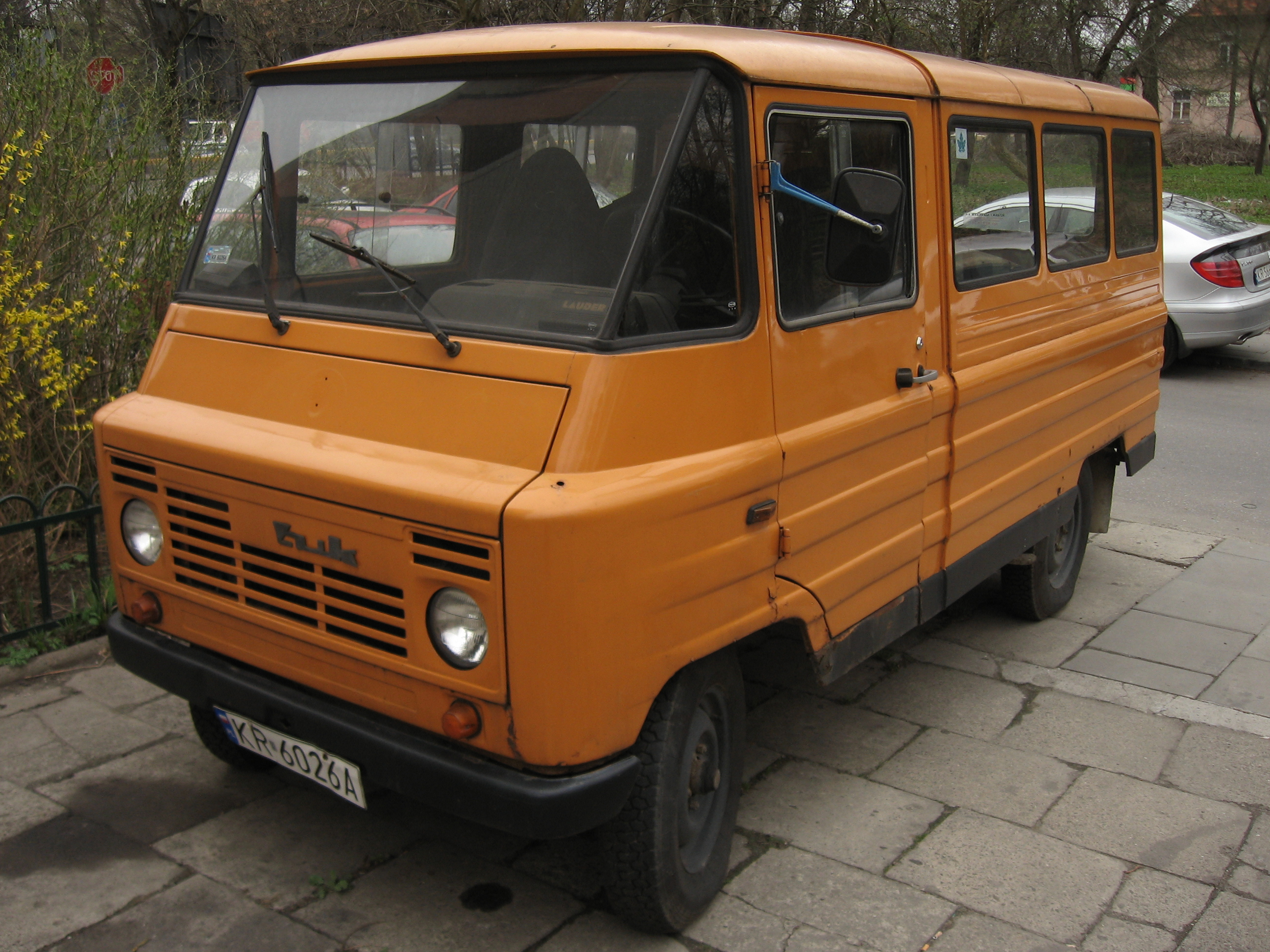 FSC Żuk B on Rogatka in Kraków.